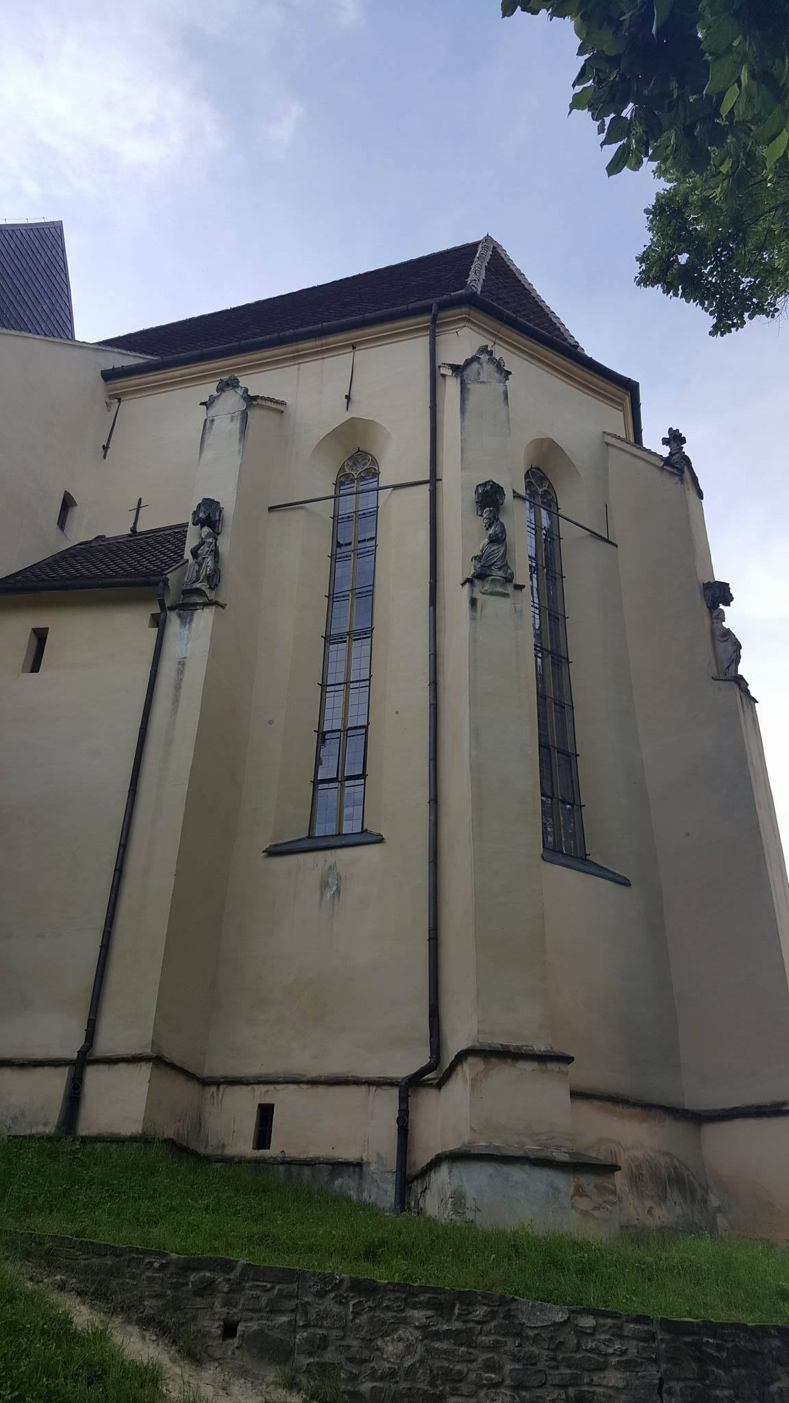 Church on the Hill